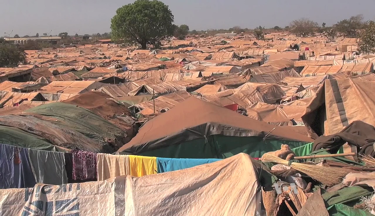 Refugee camp at the St. Mary Help of Christians Cathedral of Wau town.